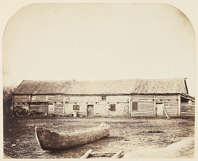 Mr. Andrew McDermot's store, near (Upper) Fort Garry, 1858, Fort Garry, Manitoba